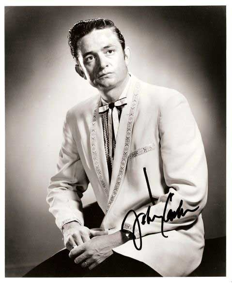 Johnny Cash promotional picture for Sun Records, 1955.